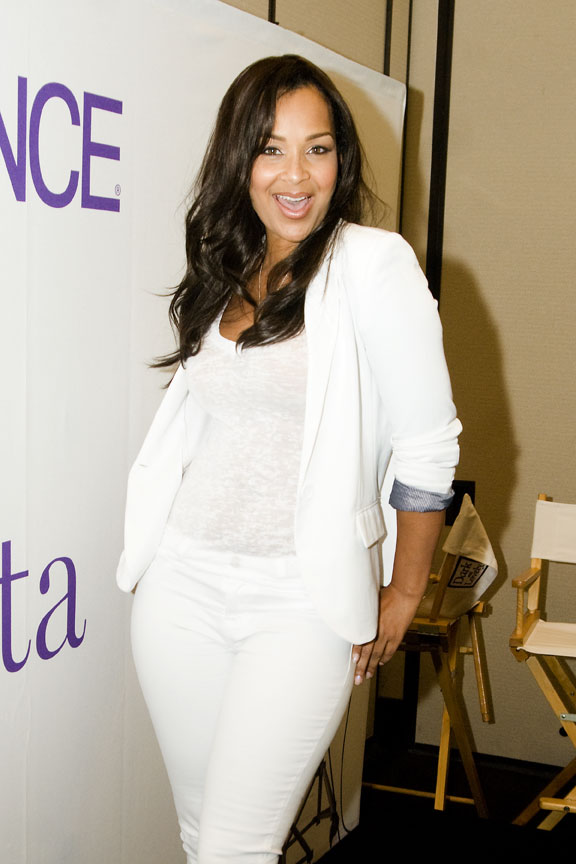 Actress/Designer LisaRaye McCoy Shares Panel for Dark and Lovely and Essense Magazine, The "Ultimate Fashionista" Event in Chicago, IL, USA on June 12, 2010